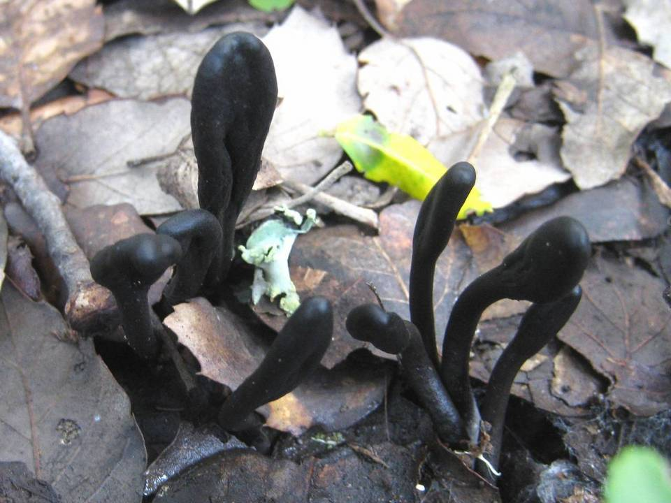 In situ photograph of Geoglossum cookeanum.